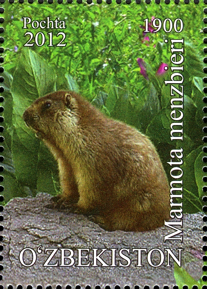 Stamps of Uzbekistan, 2012